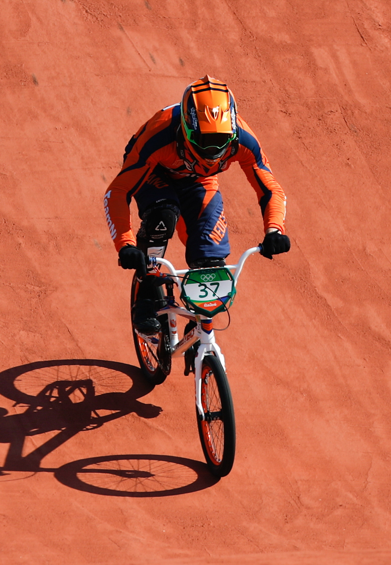 Rio de Janeiro - Ciclista holandês Jelle van Gorkom compete BMX nos Jogos Olímpicos Rio 2016, no Parque Radical em Deodoro (Fernando Frazão/Agência Brasil)